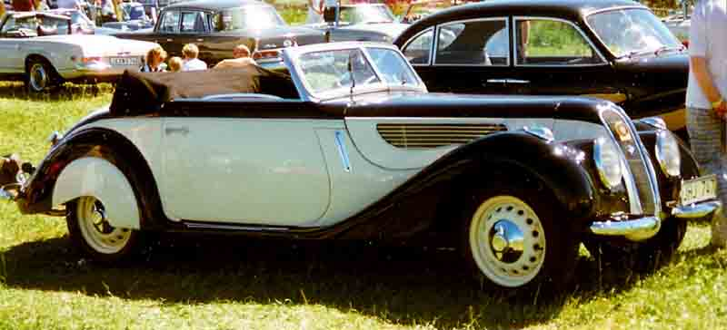 B.M.W. 327/28 Sport-Cabriolet 1939